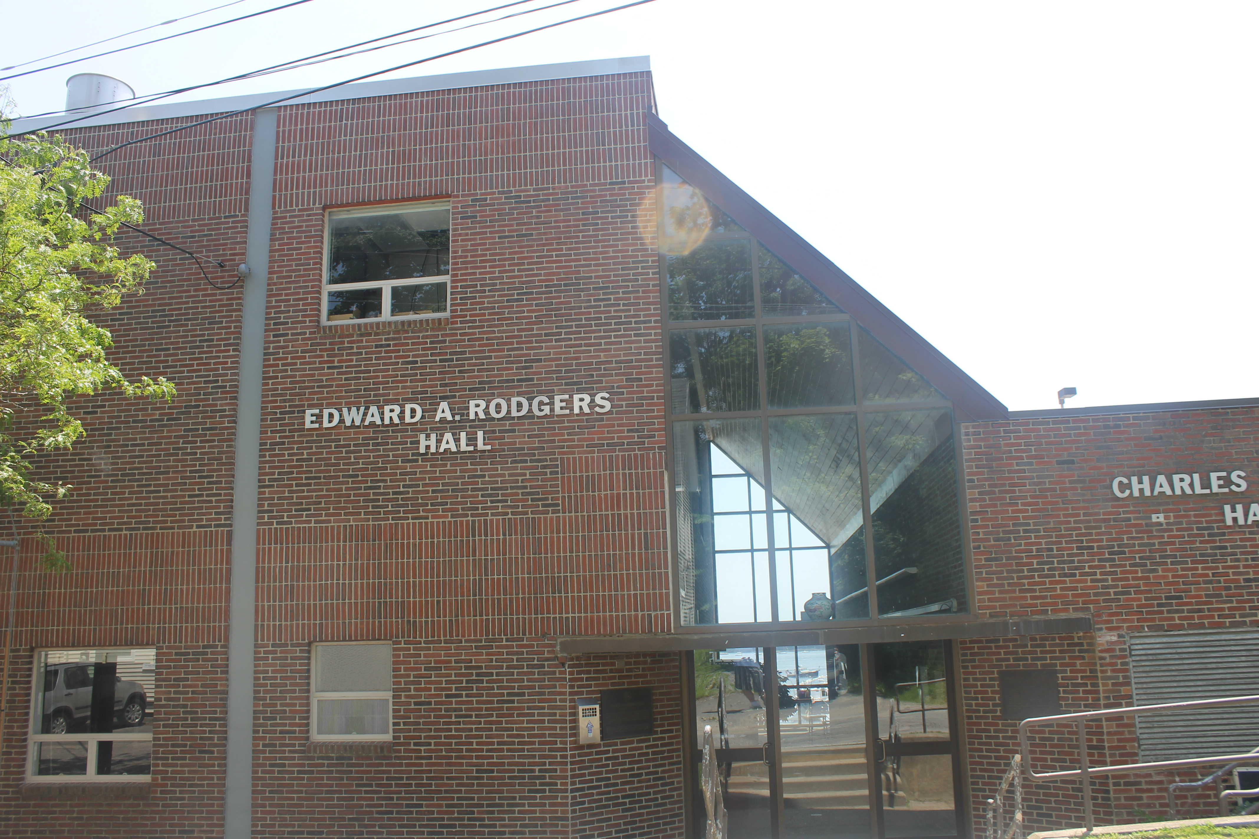 I took photo with Canon camera of Waterfront Campus of Maine Military Academy in Castine, ME.